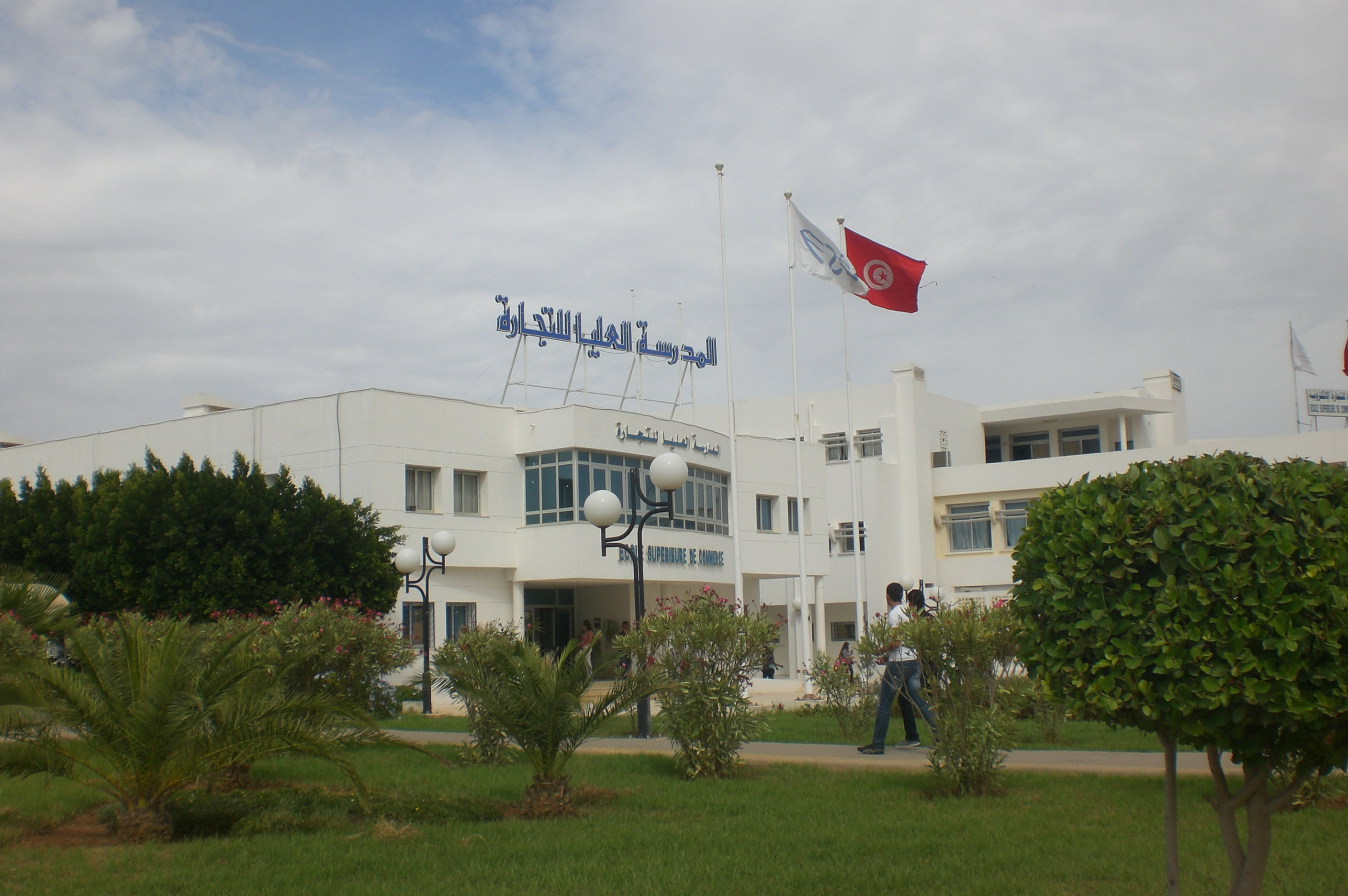 Higher School of Commerce in Tunis